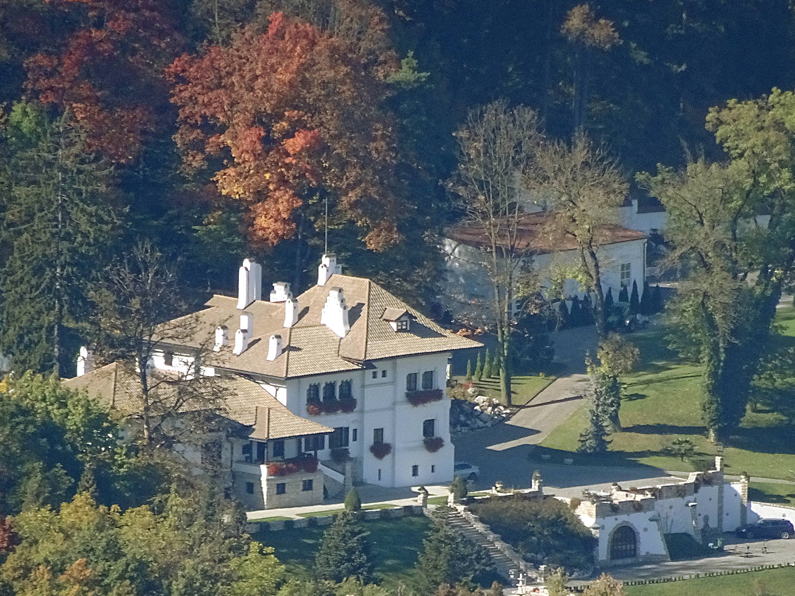 Palatul Stirbei in Brasov (str Crisan nr 5)